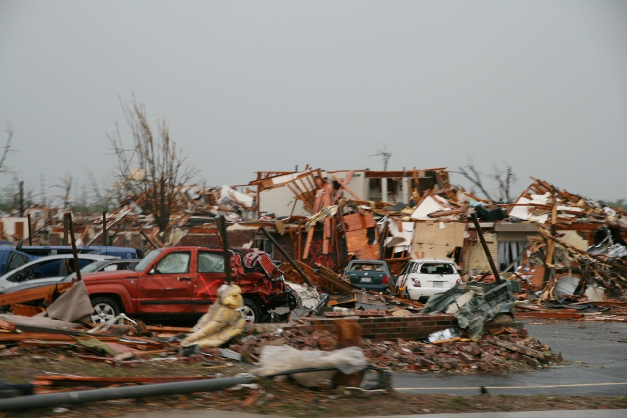 Boone County Fire Protection District in Joplin